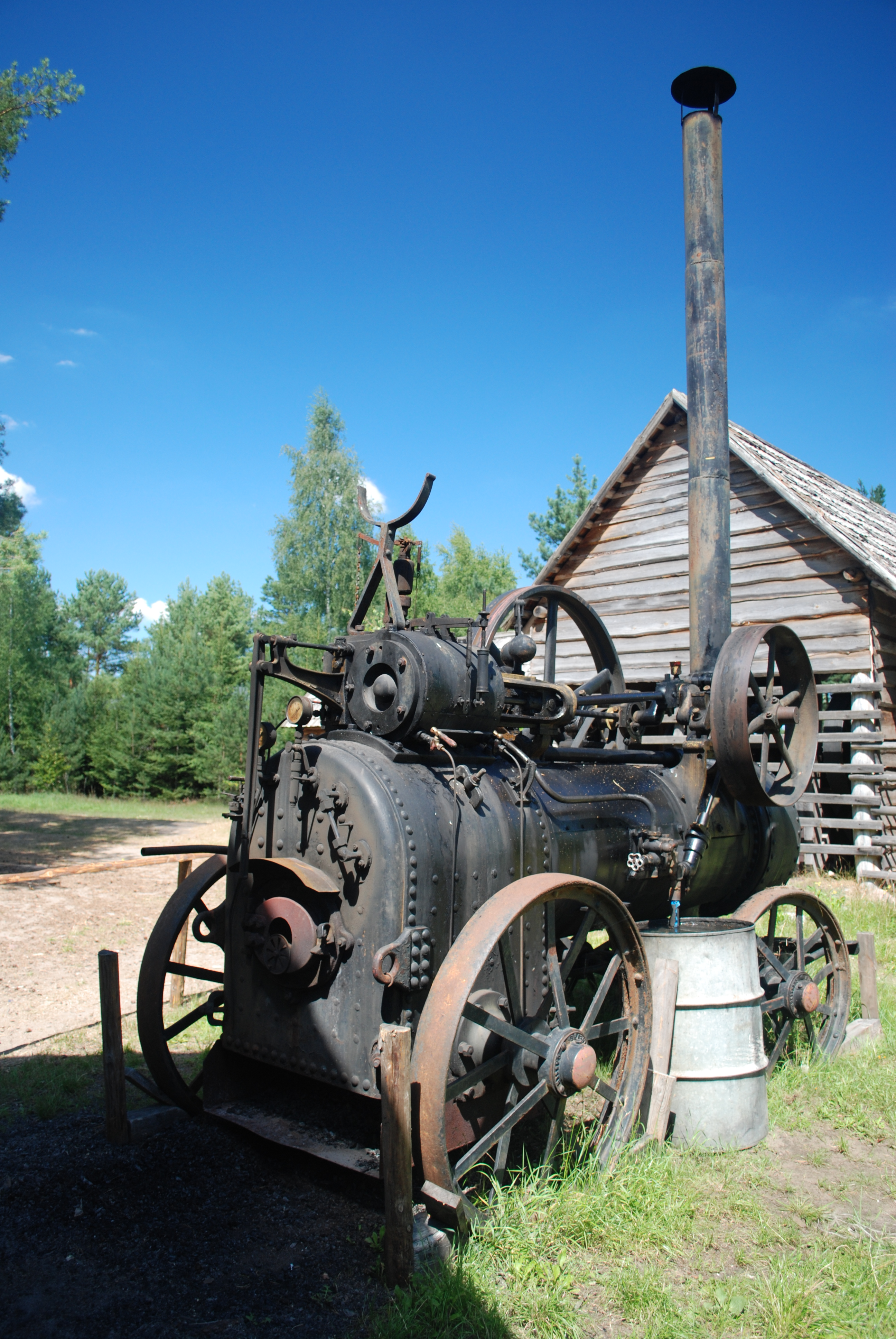 Old steam engine in Wdzydze (Poland)